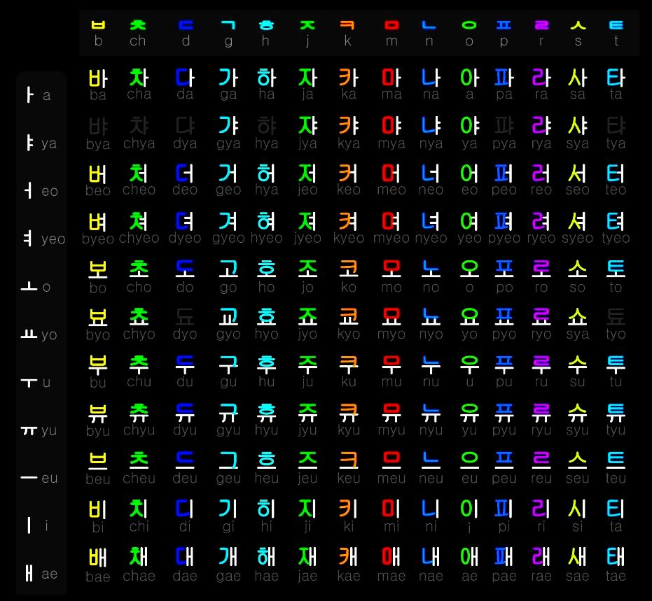 Placement and sounds of "the initial" (consonants) & "the medial" (vowels).